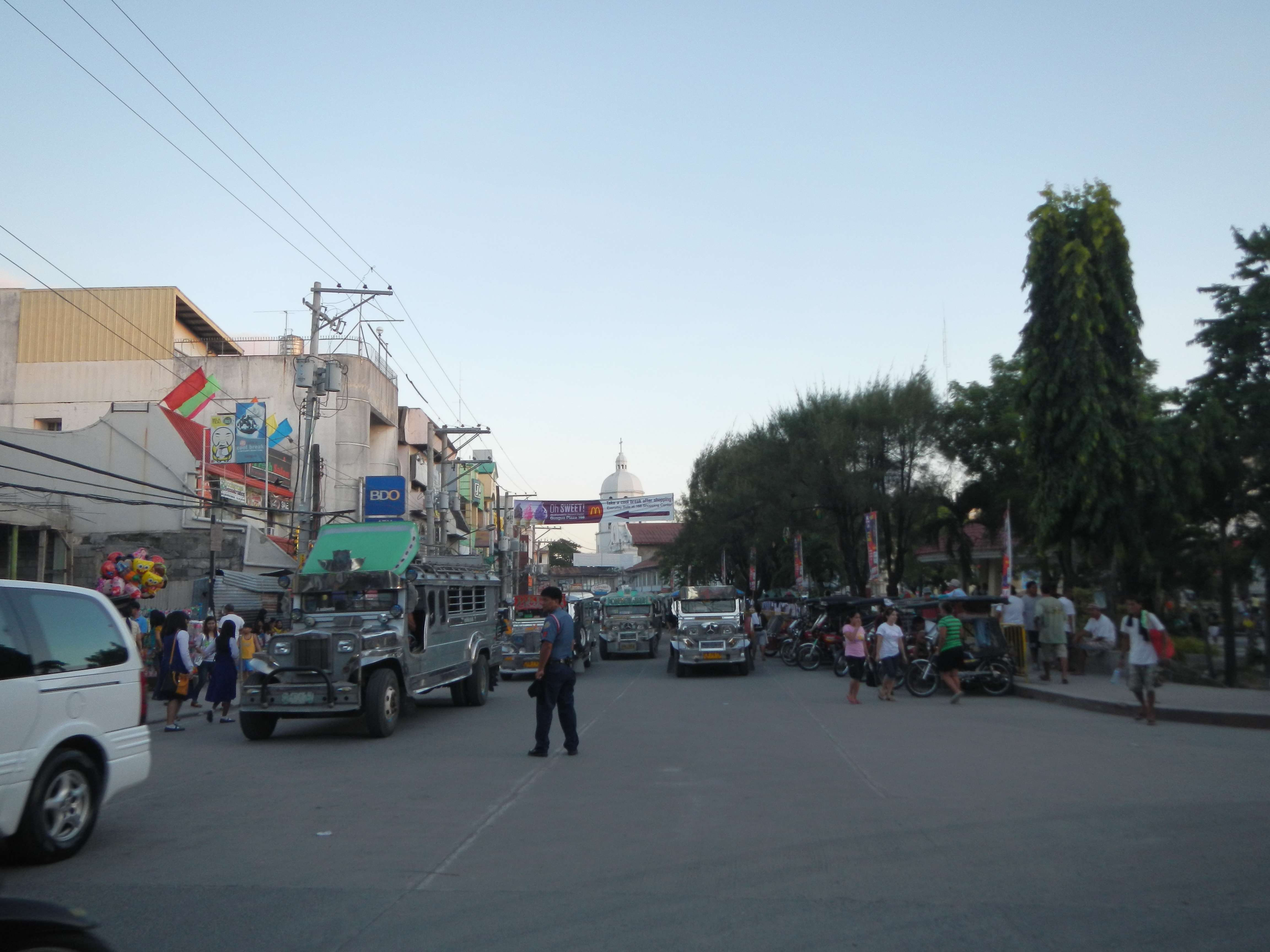 Guagua, Pampanga[1]